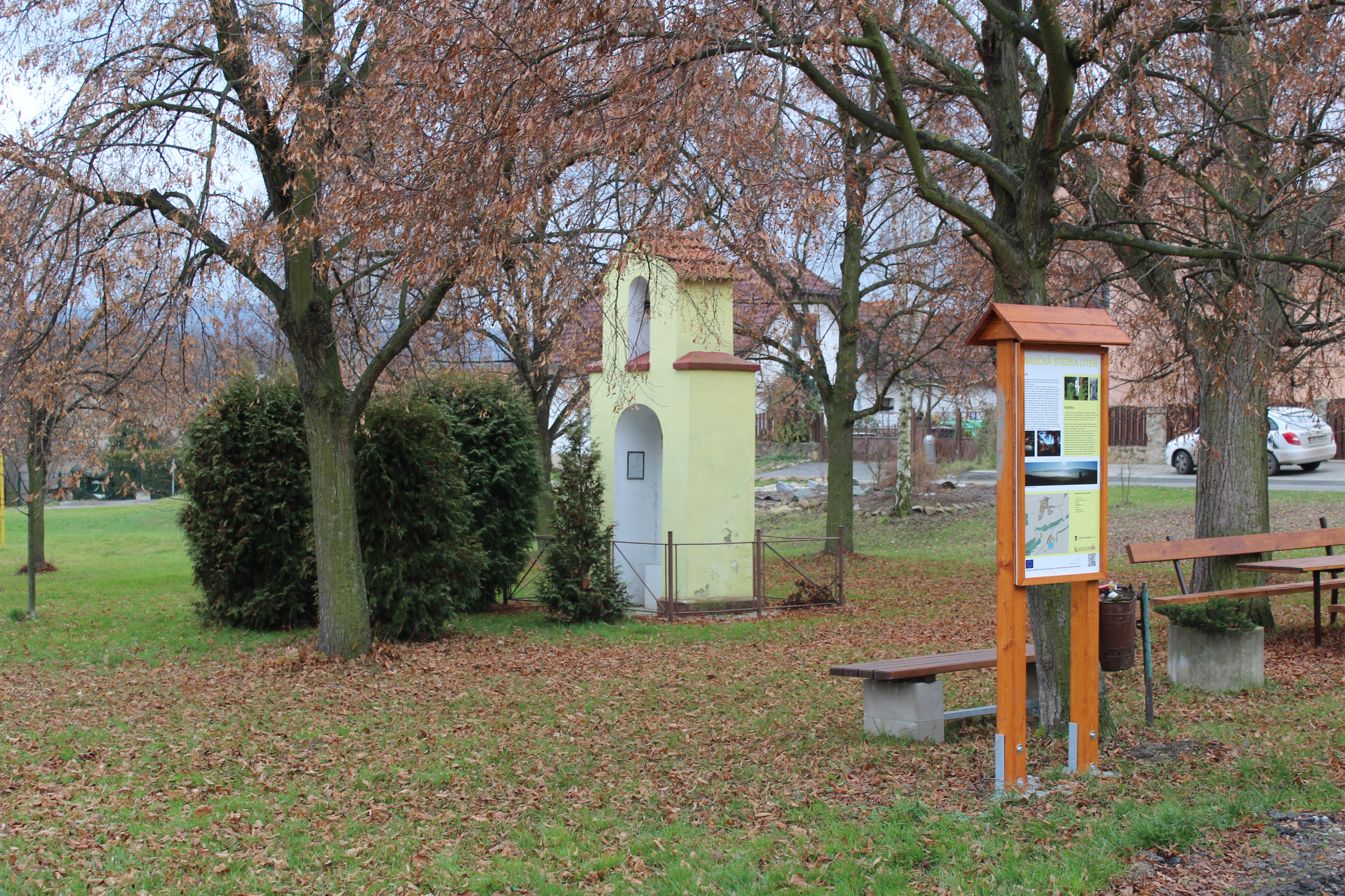 Chapel in Leč